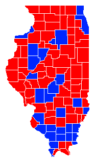 Results by county, 1998, for Secretary of State of Illinois